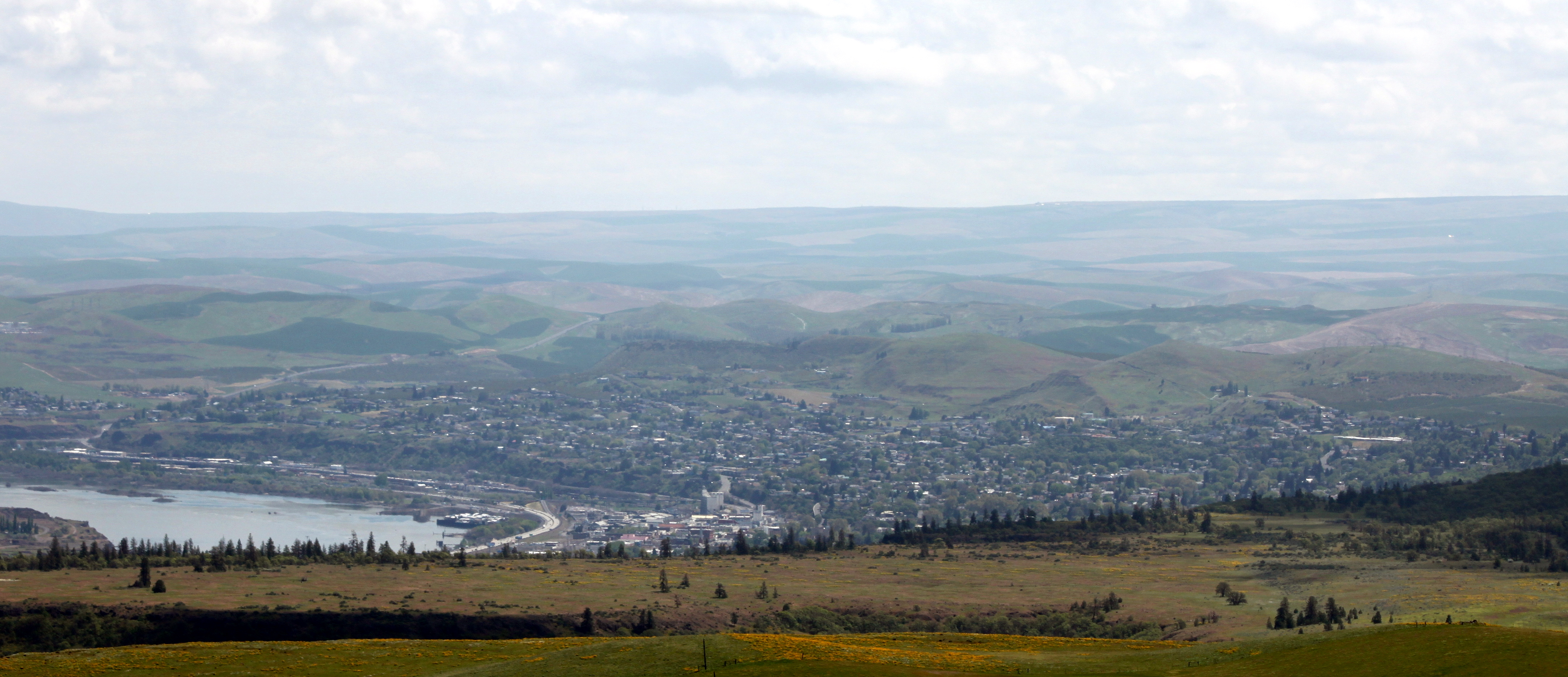 Picture of The Dalles from nearby hills.